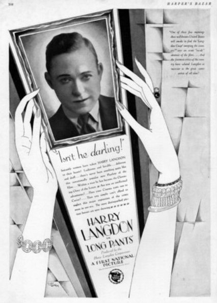 Ad from 1927 Harper's Bazaar for the American comedy film Long Pants (1927). This is from a 1927 issue of the magazine and is page 121.